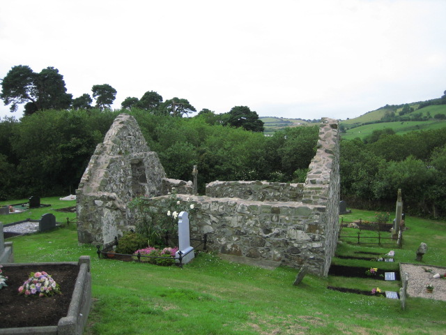 Loughinisland Churches. The smallest of the three churches. The surrounding area is still used as a graveyard.